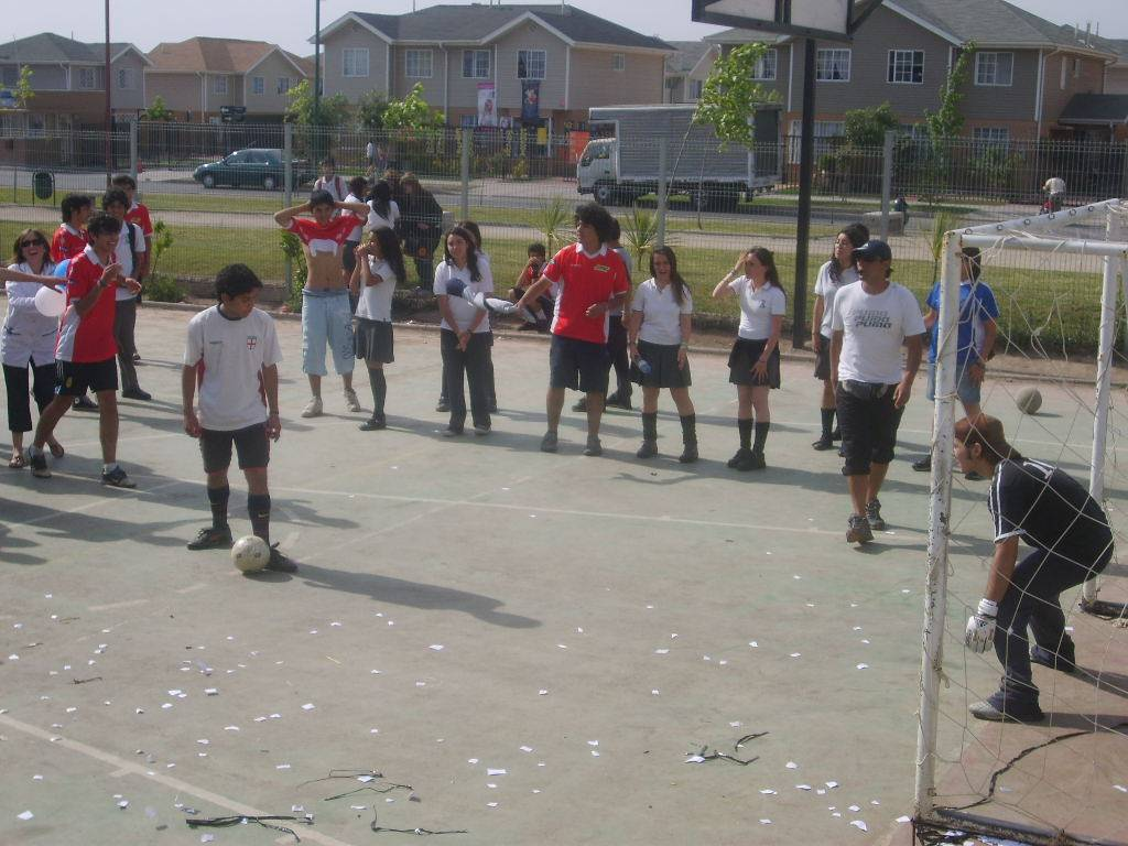 penal desperdiciado que ponia en jaque el campeonato de los pisaak